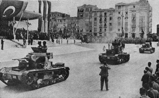 T-26 B-2 at parade, Ankara